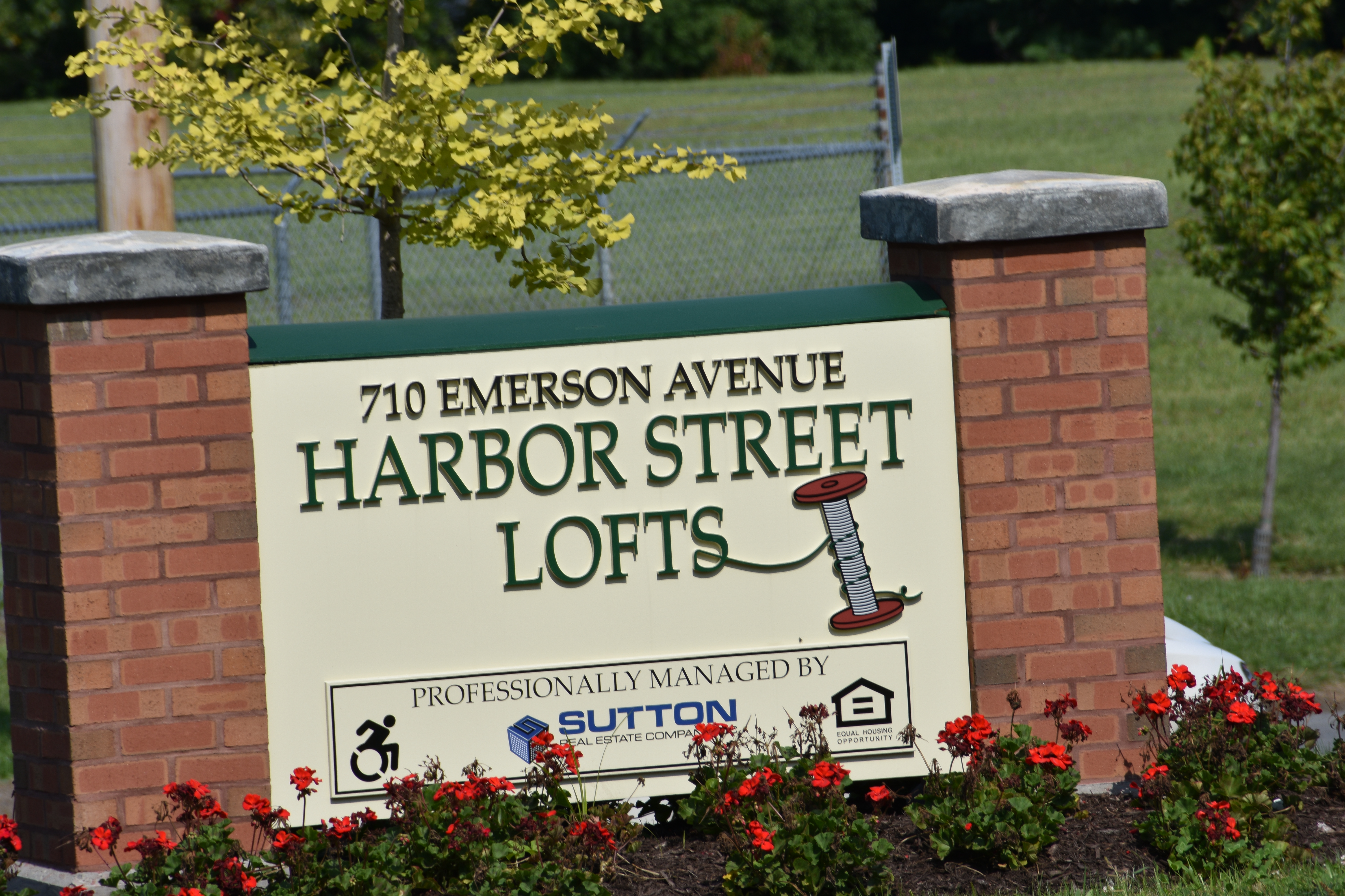 This location used to be the West Brother's Knitting Company building, but it has been since used as an apartment building.